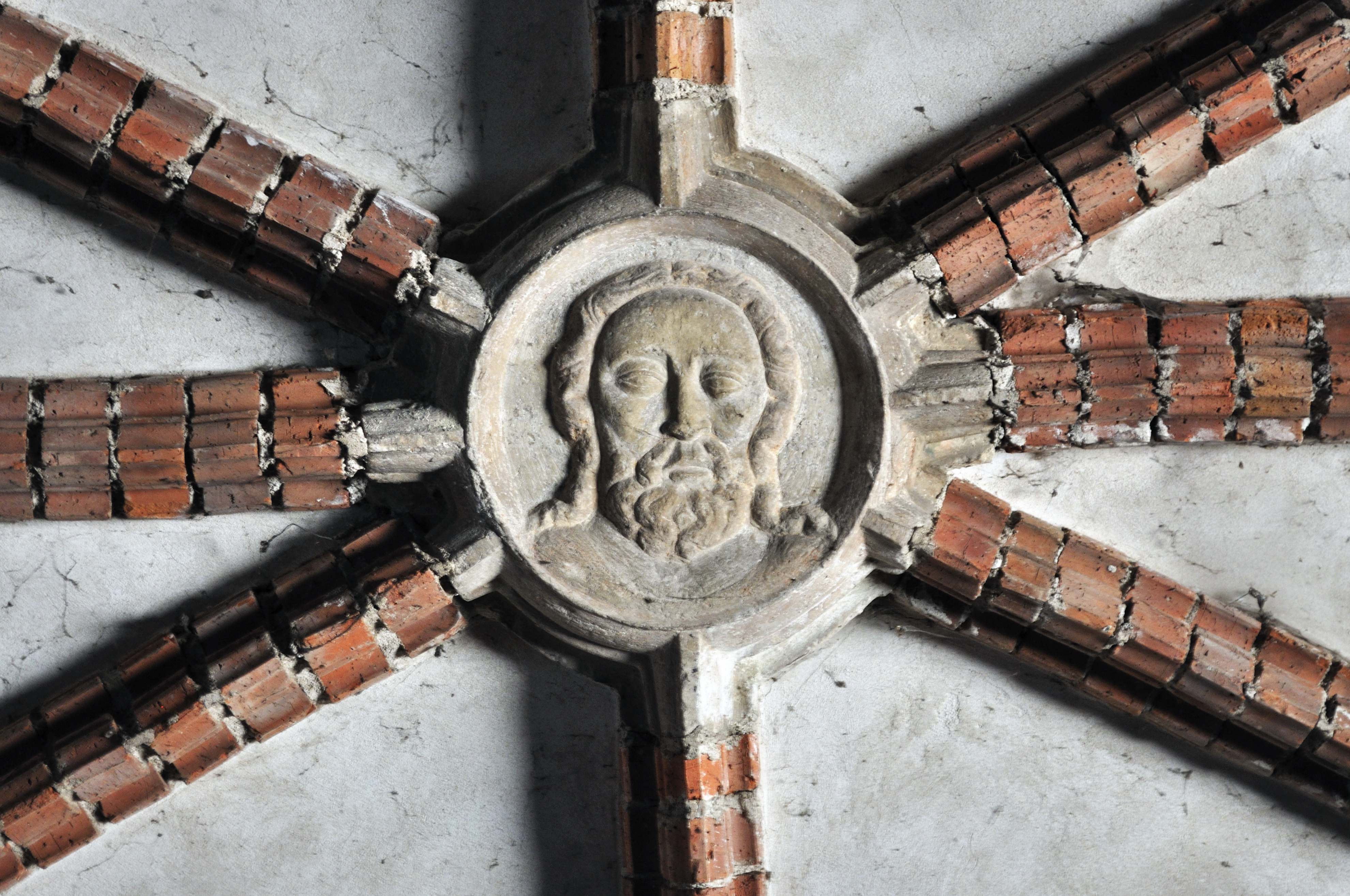 Picture taken in Malborg after Wikimania 2010 conference. Middle keystone in the Chapel of St. Anne in Malbork showing Jesus Christ, 14th century.